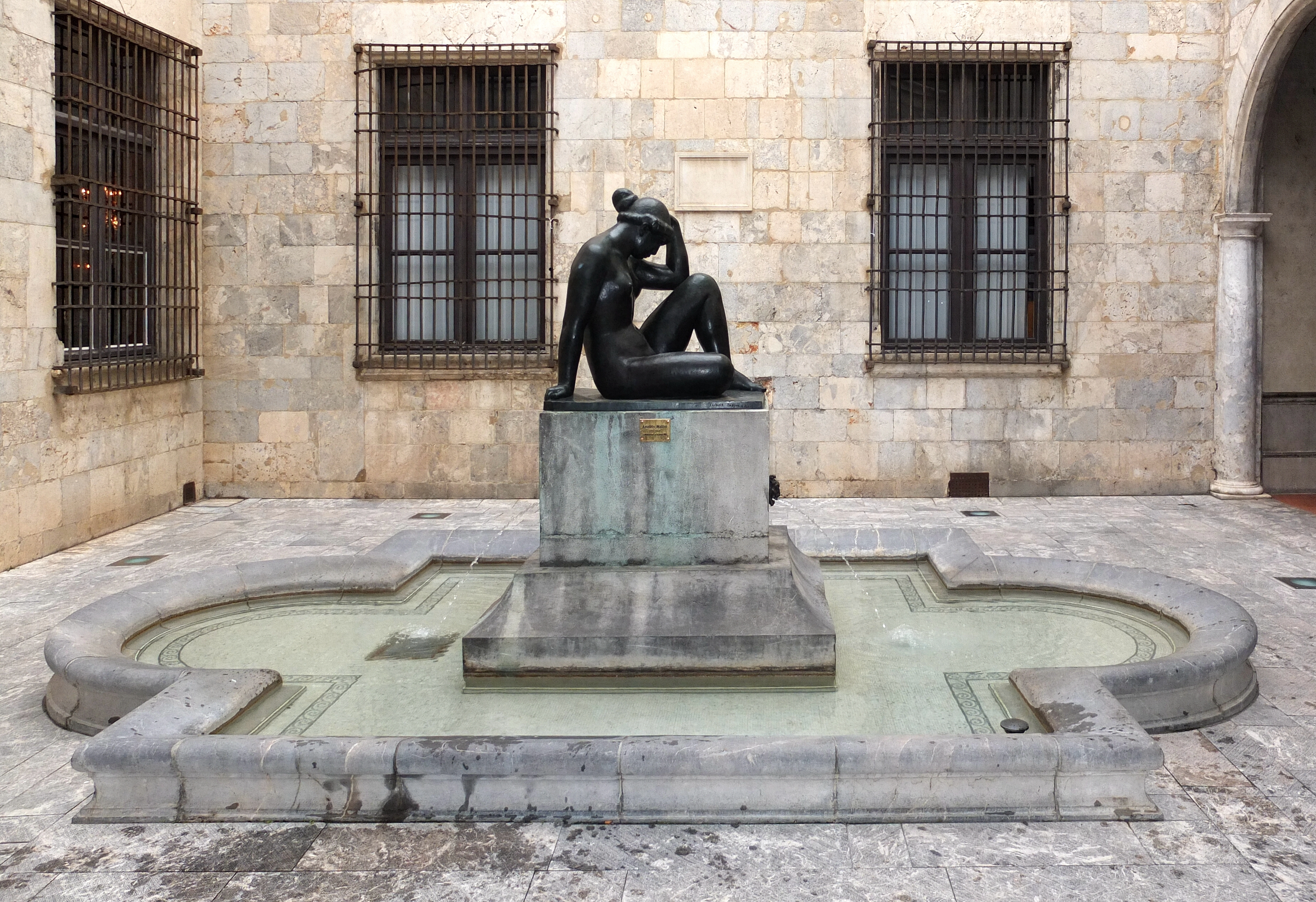 The inner courtyard of the town hall of Perpignan with "La Pensée" or "La Méditerranéenne", bronze statue (1905) by Aristide Maillol Aristide Maillol (1861–1944) Alternative names Aristide Joseph Bonaventure MaillolDescriptionFrench sculptor, painter, draughtsman and printmakerDate of birth/death 8 December 1861 27 September 1944 Location of birth/death Banyuls-sur-Mer Banyuls-sur-MerWork location Paris (1881-1900), Banyuls-sur-Mer (1893-1944)Authority control : Q153920 VIAF: 14228 ISNI: 0000 0001 0854 4692 ULAN: 500001596 LCCN: n80015568 NLA: 35202089 WorldCat creator QS:P170,Q153920